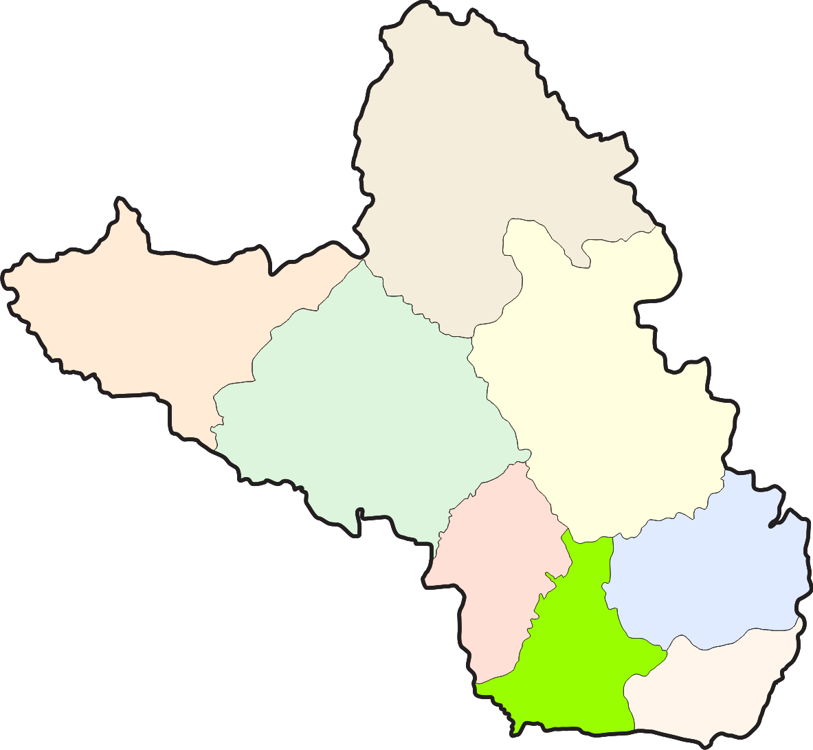 Planned Sepsi Seat